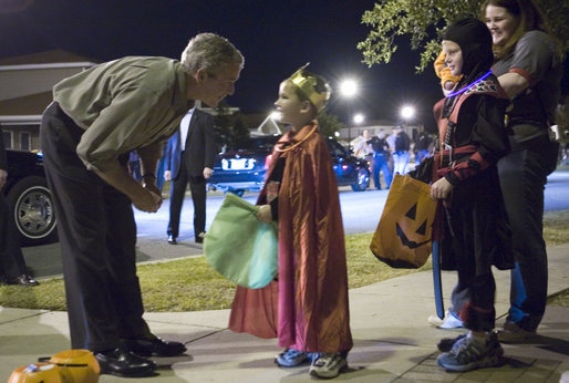 President George W. Bush shares a moment with a king during a Halloween night stop Tuesday, Oct. 31, 2006, at a housing development on base at Robins Air Force Base, Georgia, USA.